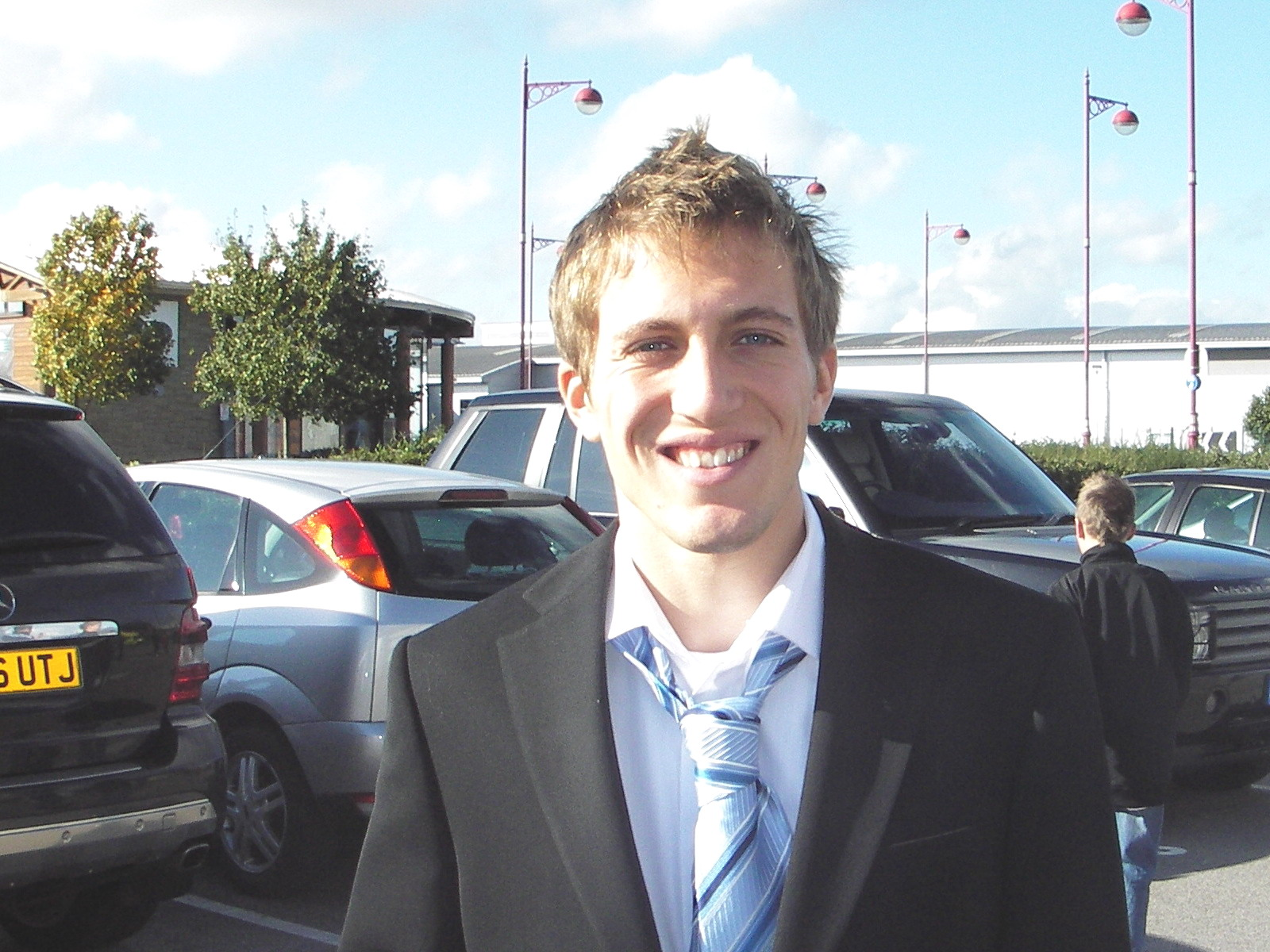 Arturo Lupoli. Arsenal and Derby County player.